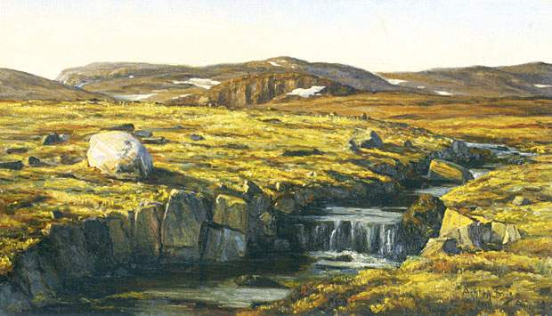 Painting by Achton Friis from the Denmark Expedition tp northeastern Greenland, 1906-1908